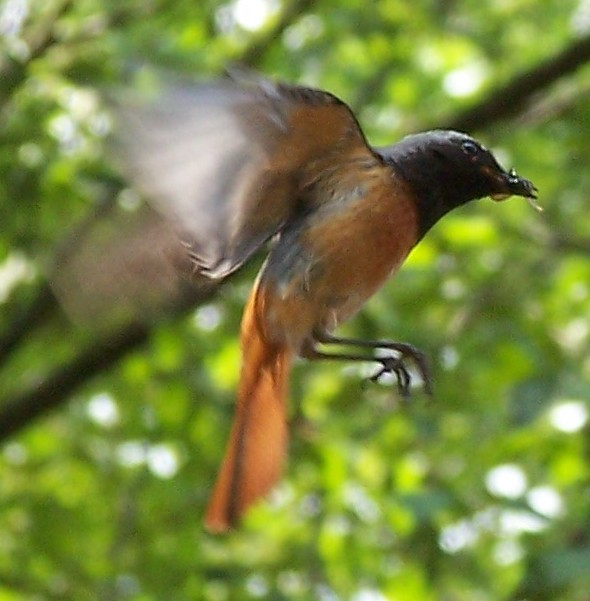 Own Picture, taken in Slagharen, The Netherlands (June 27, 2004)